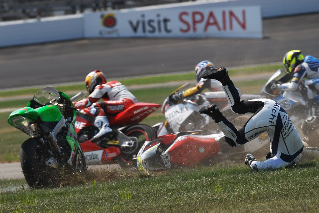 Moto2 multiple crash at the 2010 Indianapolis GP.